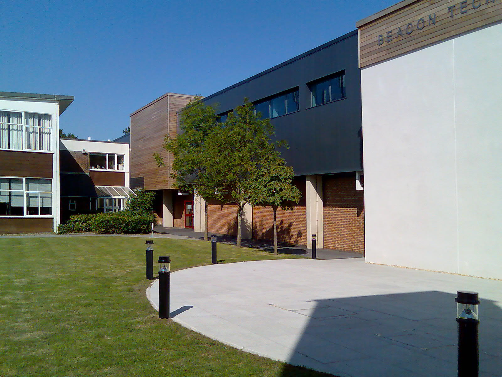 Picture of the colleges new Beacon Technology Block Picture of Brockenhurst college's new block named after its awarded Beacon status. This picture was taken by user --JLM 00:24, 20 July 2006 (UTC)